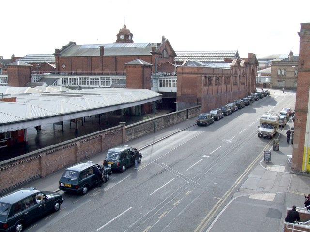 Station Street, Nottingham Always a queue of taxis outside the station, which is to the left. The two towers, which are visible above the station canopy, are lifts.